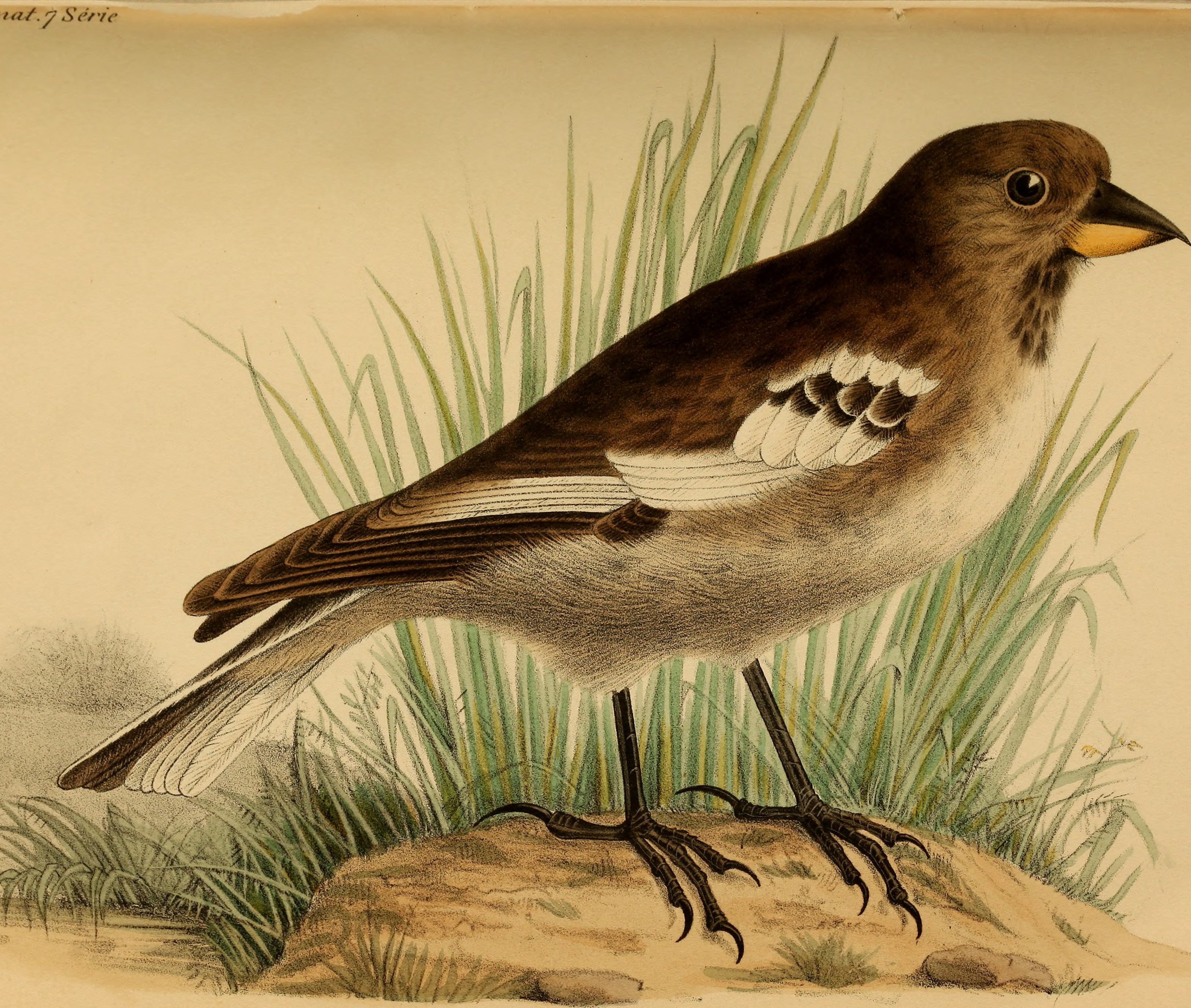 Eurhinospiza Henrici Title: Annales des sciences naturelles Year: 1834 (1830s) Authors: Milne-Edwards, H. (Henri), 1800-1885; Audouin, Jean Victor, 1797-1841; Milne-Edwards, Alphonse, 1835-1900; Perrier, Edmond, 1844-1921; Bouvier, E. -L. , 1856-1944; Grassé, Pierre Paul, 1895- Subjects: Zoology; Biology Publisher: Paris, New York : Masson [etc. ] Text Appearing Before Image: ' Text Appearing After Image: '